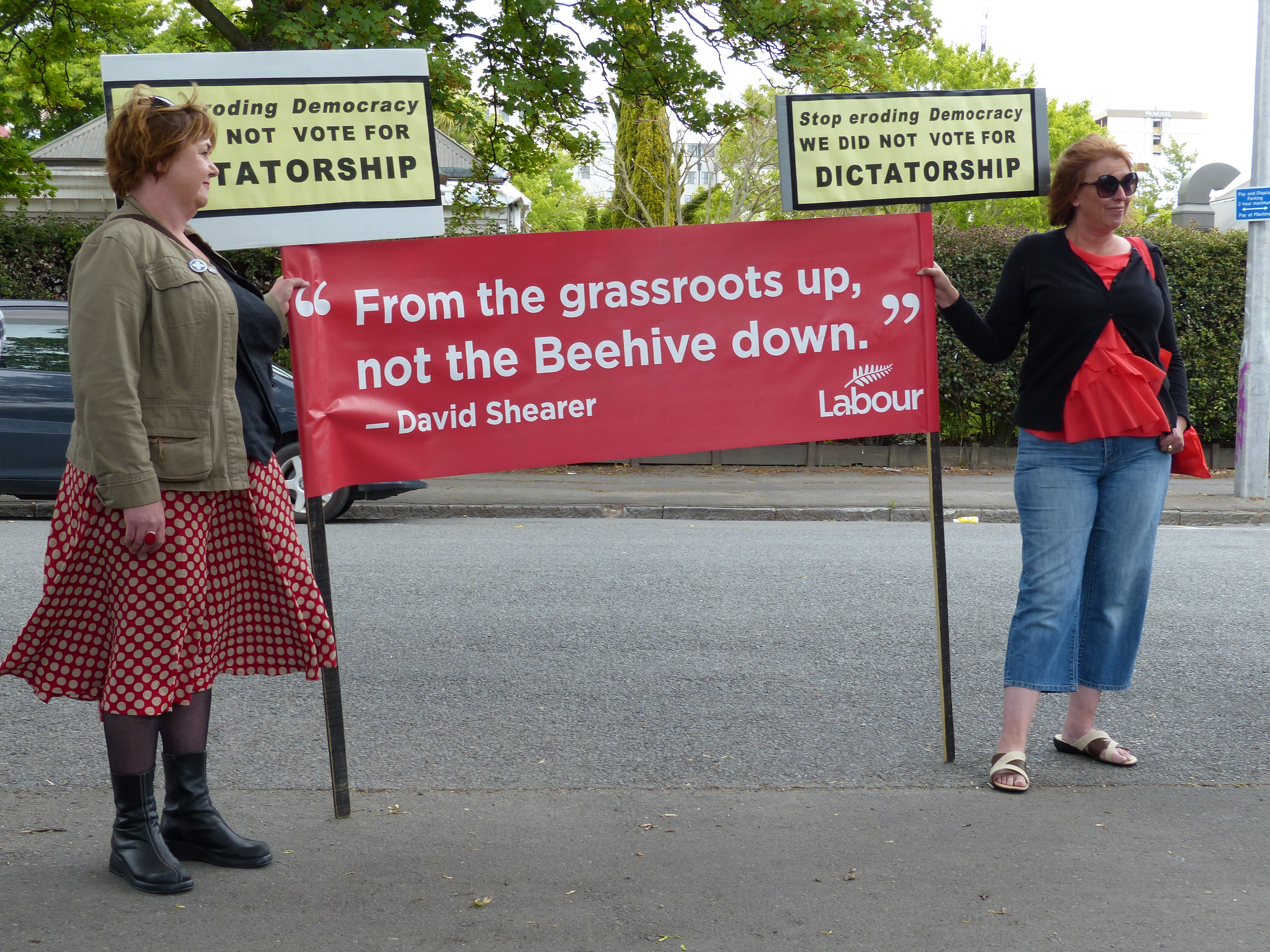 not the Beehive (parliament) down. Protest against loss of democracy in Christchurch, December 2012.